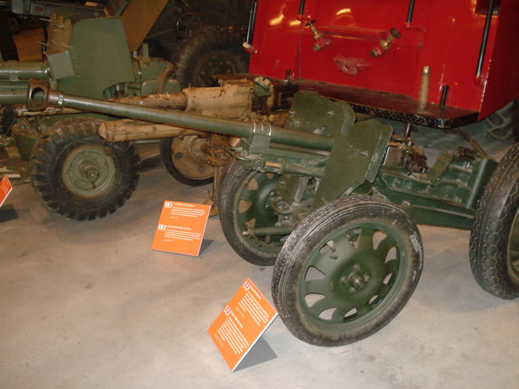 2.8 cm sPzB 41 anti-tank gun at the Canadian War Museum in Ottawa.